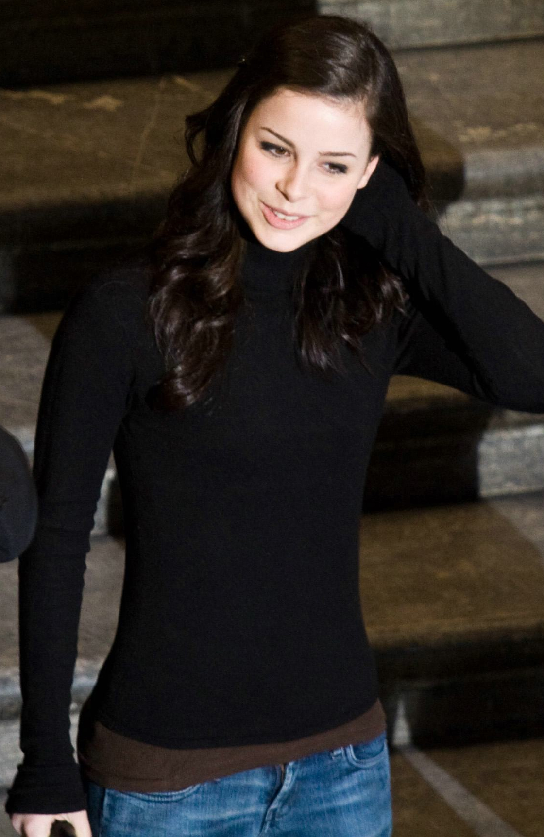 Lena Meyer-Landrut in Hanover, Germany, 17 March 2010. Cropped from File:Lena-Meyer-Landrut-2.jpg